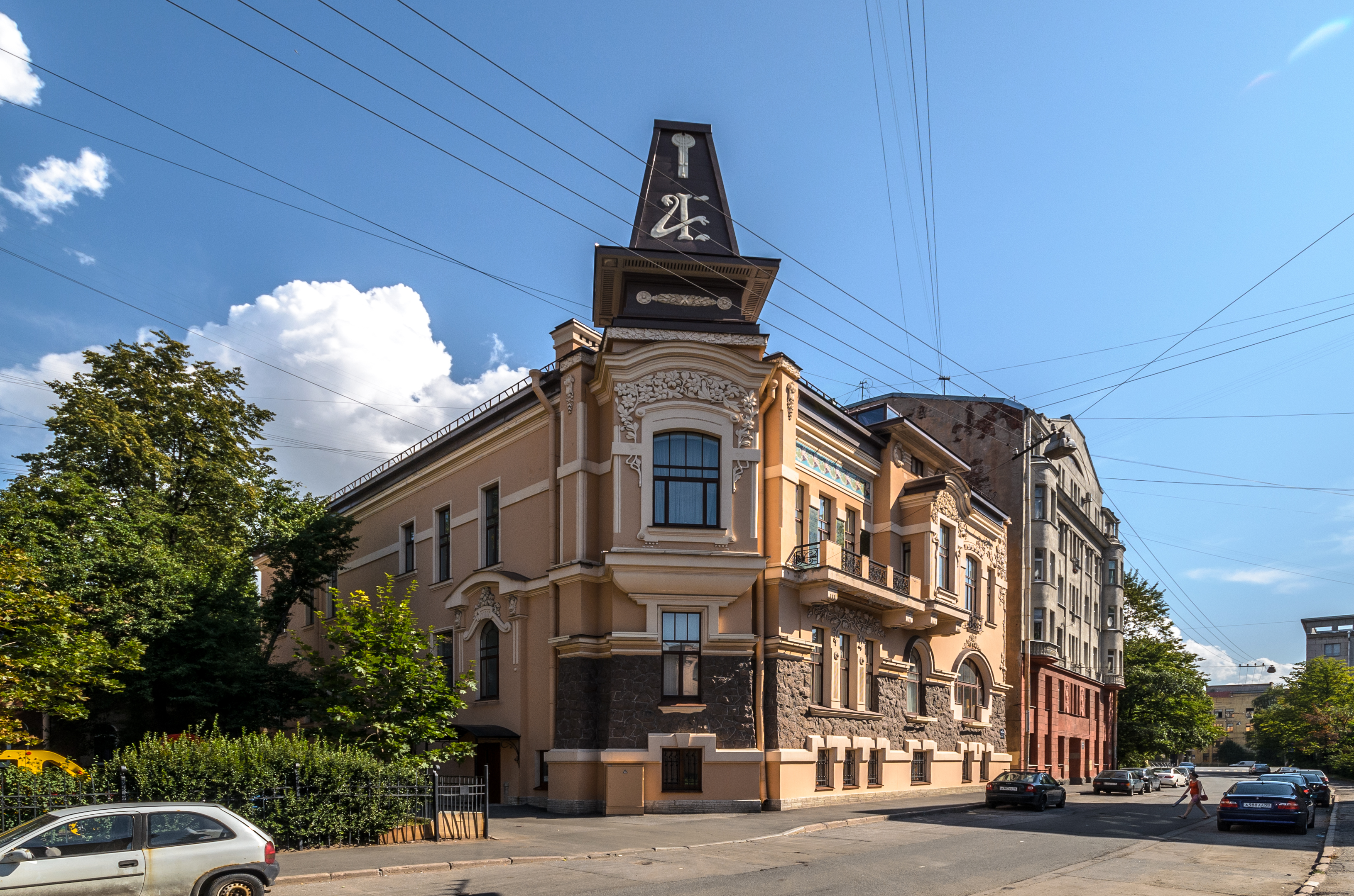 Savina's Mansion in Saint Petersburg